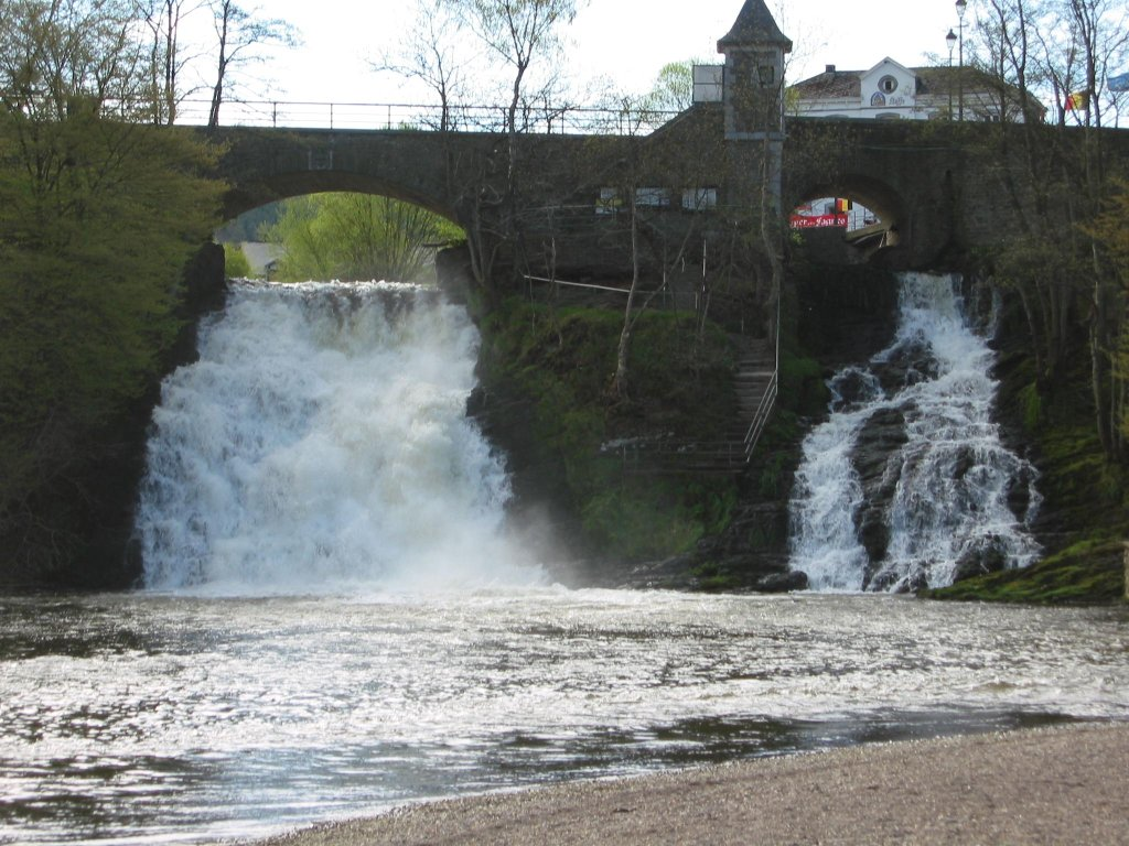 The waterfalls of coo